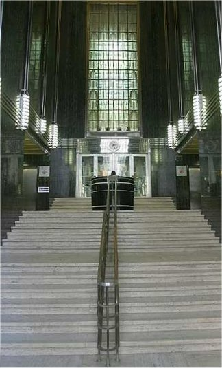 The entrance to the Mutual Building in Darling Street, Cape Town - veined black marble, stainless steel and etched glass echoing the ziggurat structure of the building.